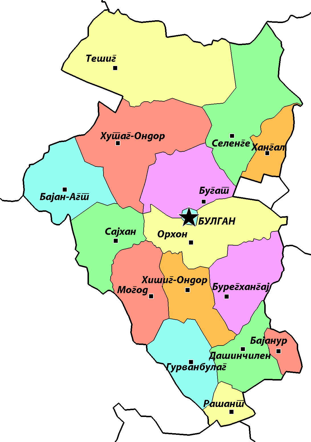 Translated map of Bulgan sum on Macedonian language